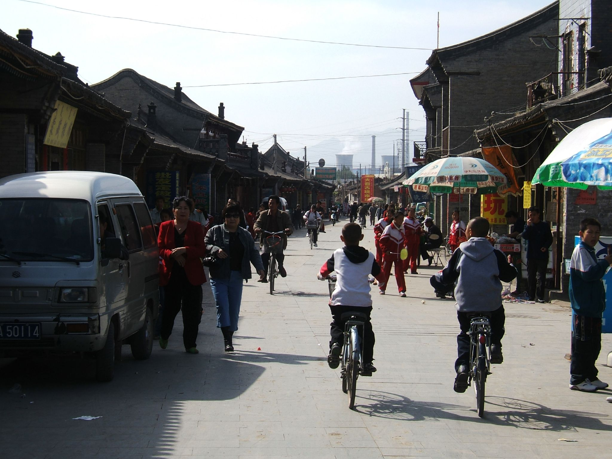 The old town, Hohhot, Inner Mongolia, China